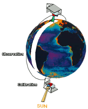 Kalibratsioon leiab aset orbiidi lõunapoolkeral